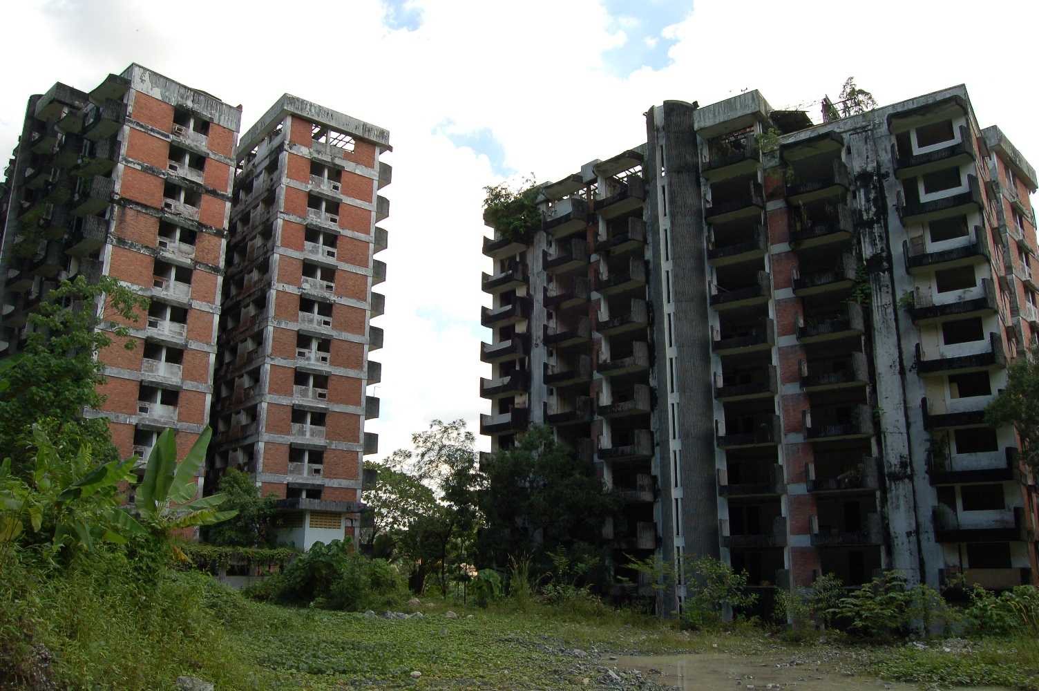 I took this photo myself.